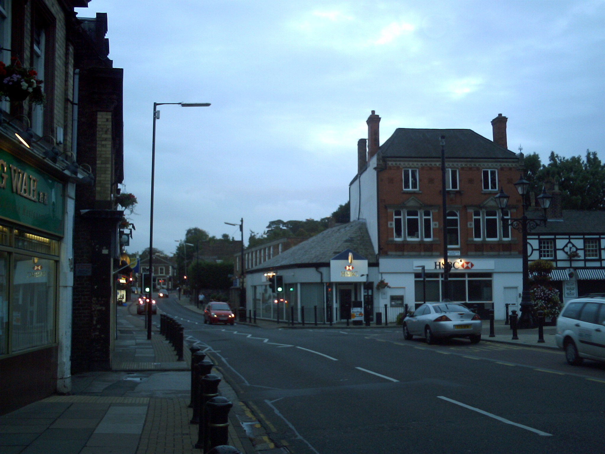 A photograph of Woolton Street in Woolton, Liverpool.